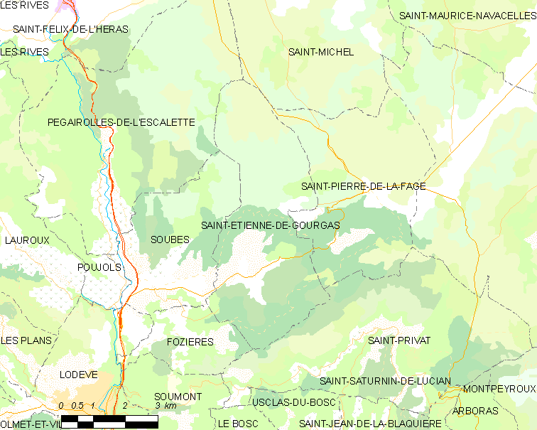 Map commune FR insee code 34251.png - Saint-Étienne-de-Gourgas